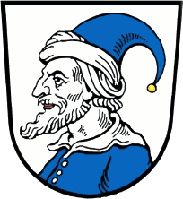 Coats of arms of Markt Heidenheim